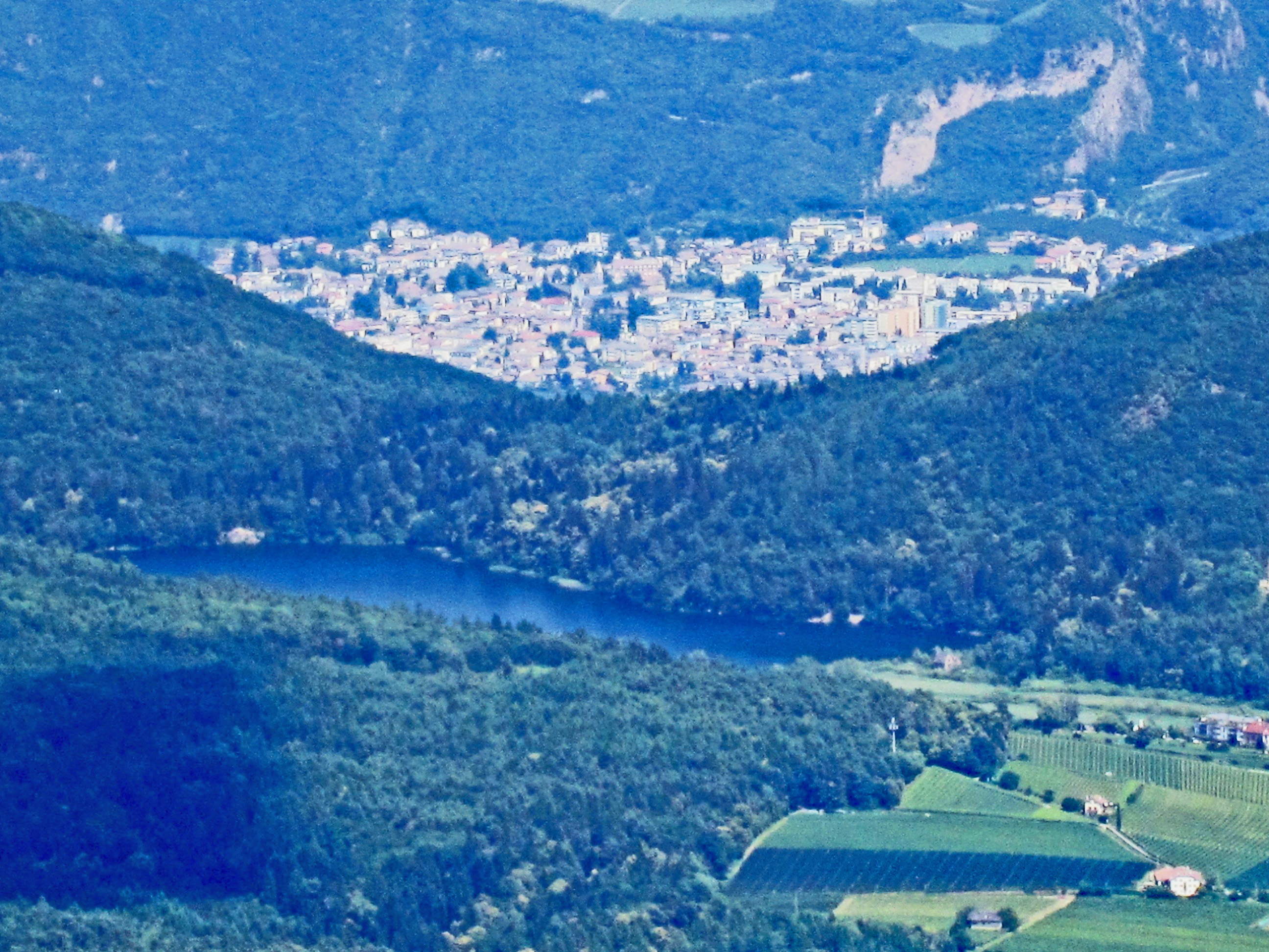 Big Lake Montiggl (Eppan/Appiano) and Leifers/Laives in South Tyrol